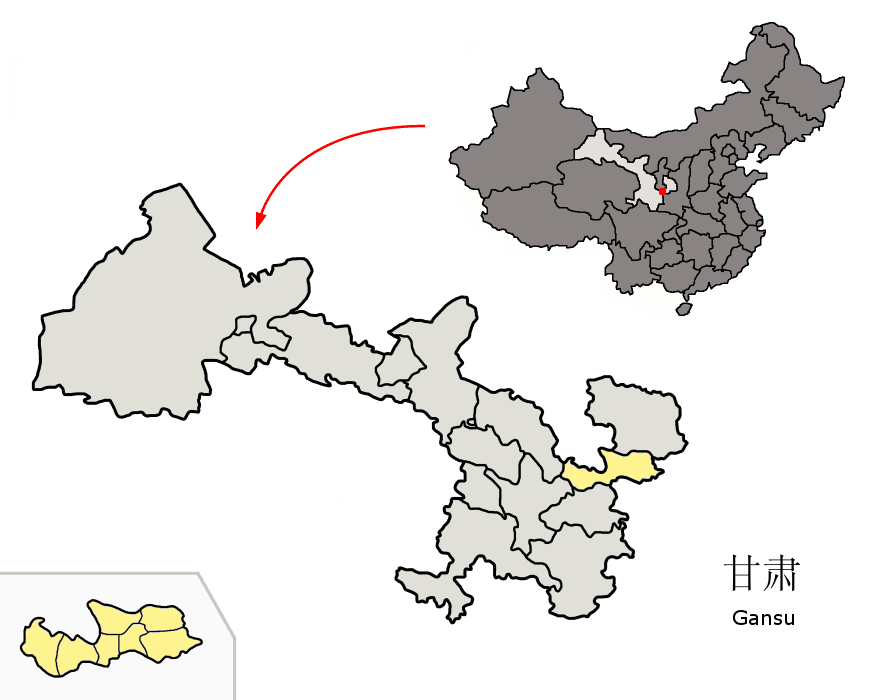 Location of Pingliang Prefecture (yellow) within Gansu province of China Map drawn in october 2007 using various sources, mainly : Gansu province administrative regions GIS data: 1:1M, County level, 1990 Gansu Counties map from